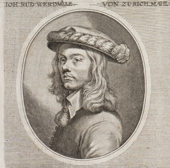 Engraving from the German Academy of the Noble Arts of Architecture, Sculpture and Painting, or Teutsche Academie, a comprehensive dictionary of art by Joachim von Sandrart, published in 1675 and later illustrated with engravings in 1683 IOH: RUD: WERDMILLER VON ZÜRICH. MAHL: Richard Collin sculp Antwerp